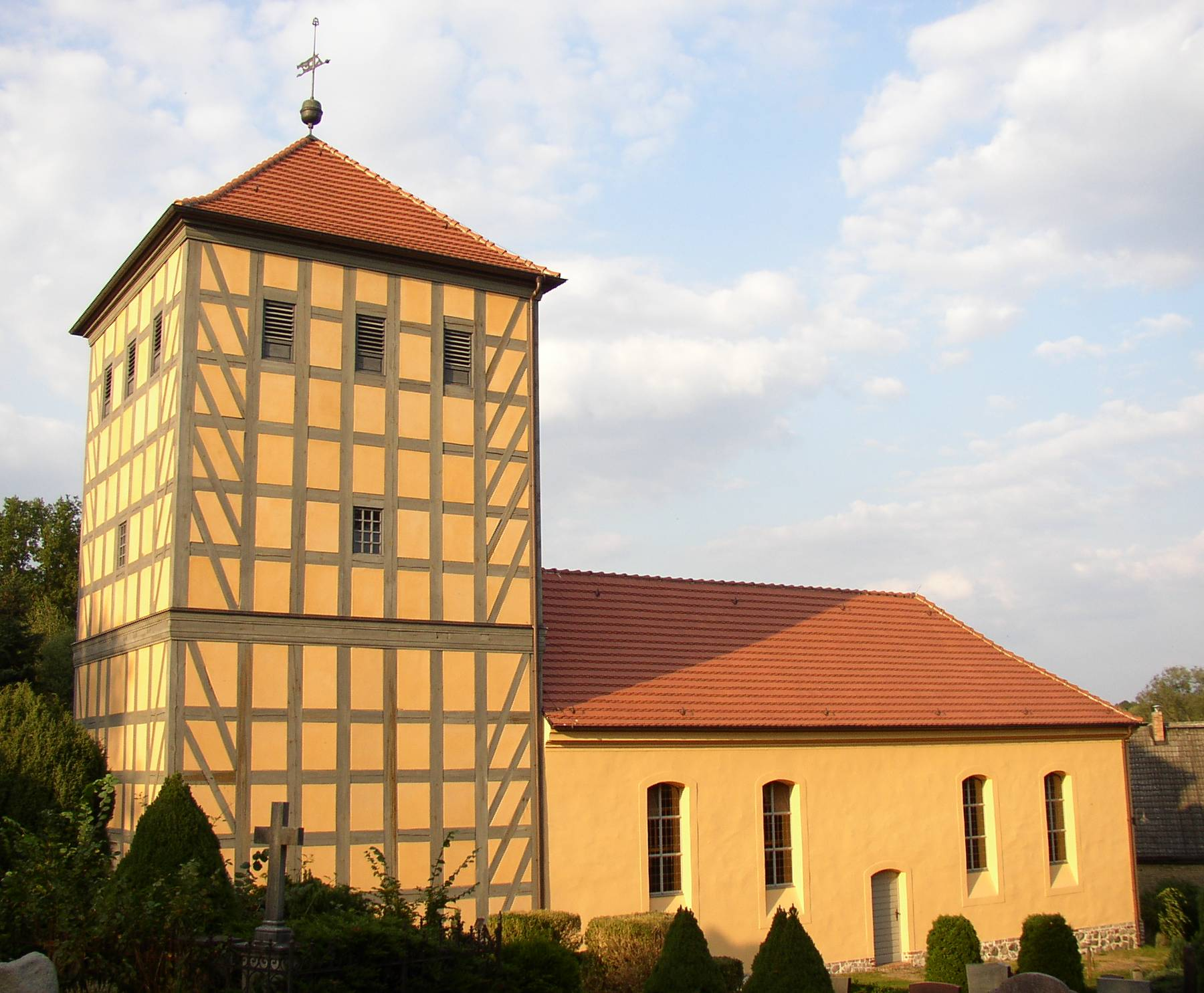 Church in Wandlitz-Prenden in Brandenburg, Germany